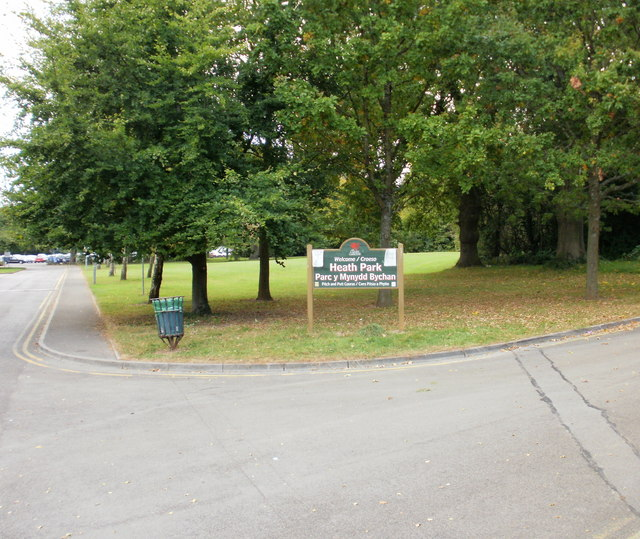 Entrance to Heath Park, Cardiff The entrance is approached from King George V Drive East. Heath Park forms an important "green lung" in the northern suburbs of Cardiff. It is a large area of 37 hectares containing pitches, woodlands, ponds and recreational facilities. The administrative centre of the Parks Service is also located here.